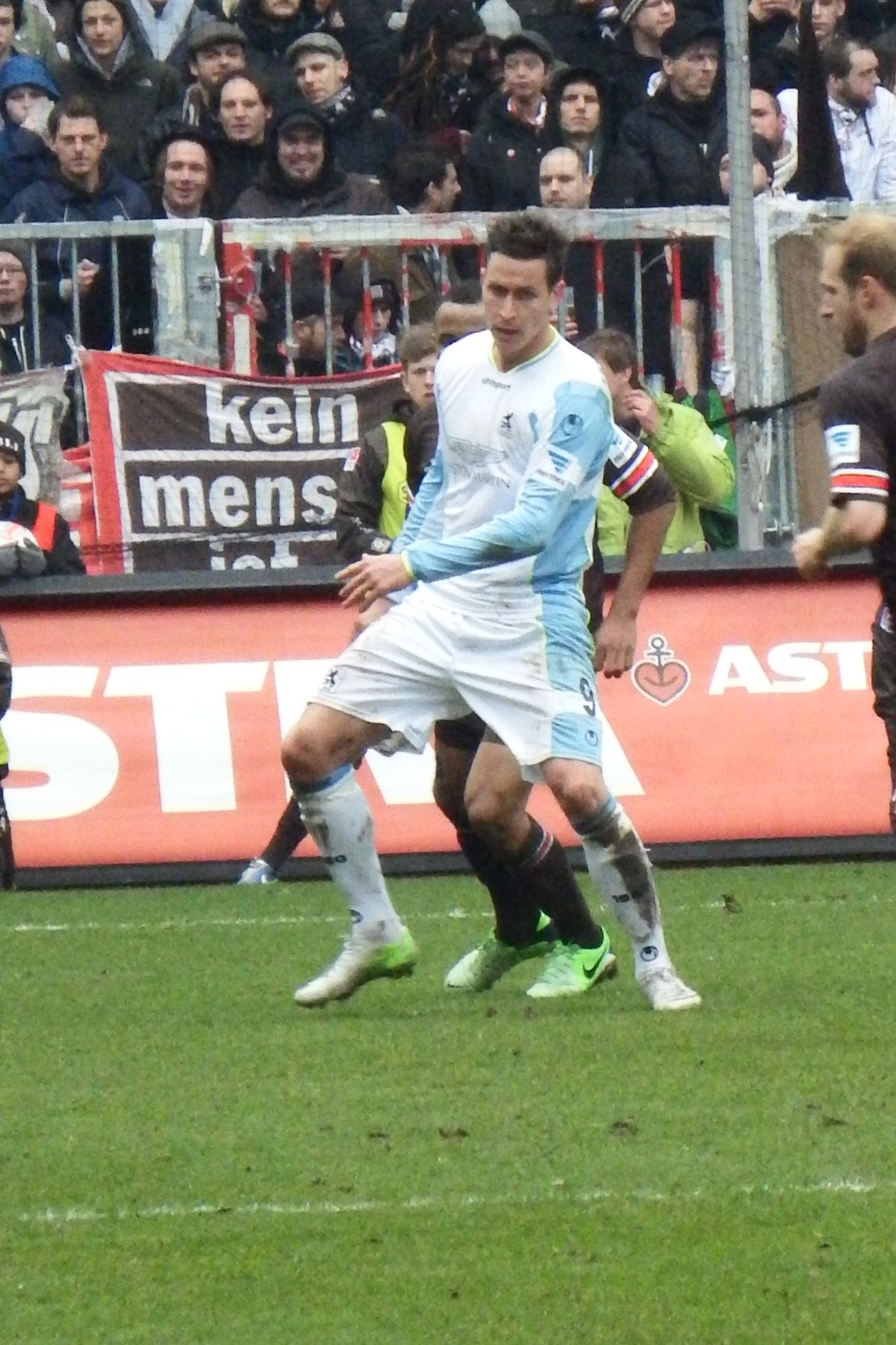 Rob Friend as Player from TSV 1860 München